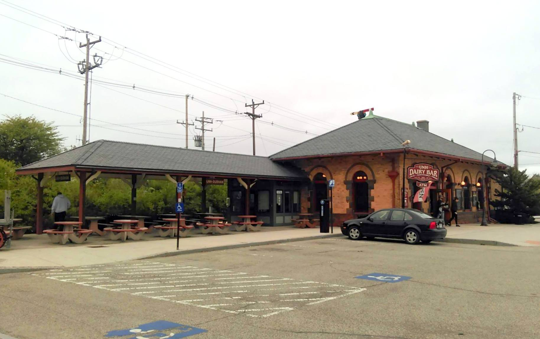 Durham-UNH station in May 2016